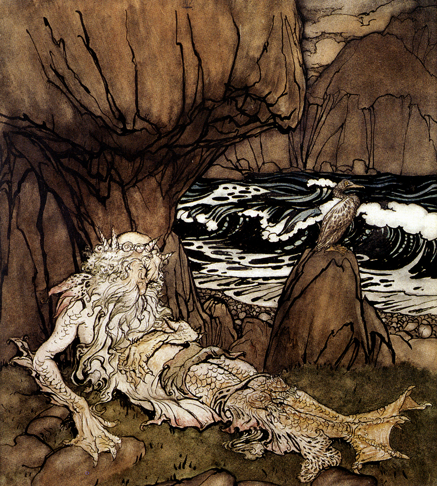 A Crowned Merman. Watercolor, brown ink, and pen. 26 x 19.5 cm (10.24" x 7.68"). Private collection.